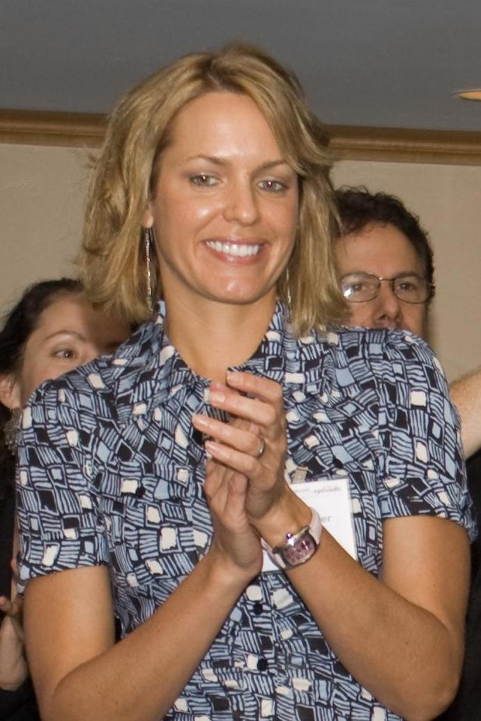 Arianne Zucker at a StrikeTV Press Conference.